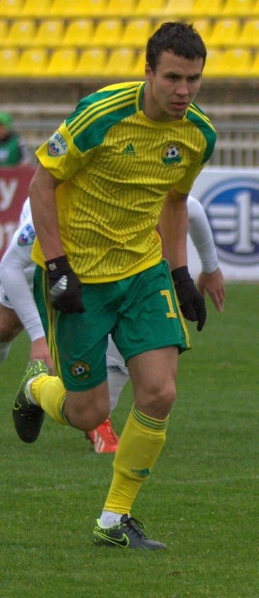 Nikita Malyarov with FC Kuban Krasnodar in a game against FC Neftekhimik Nizhnekamsk.